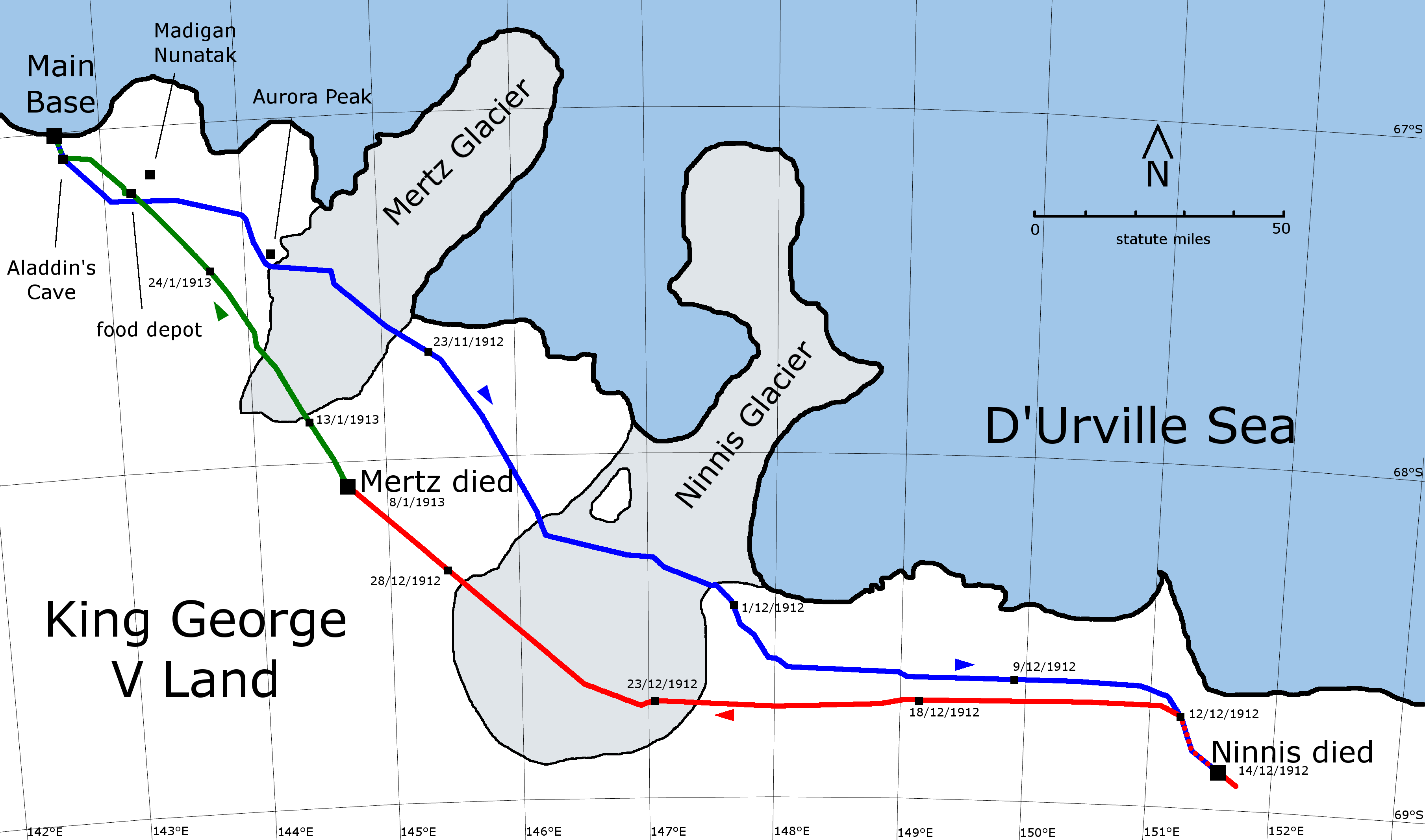 Route of the 1912–13 Far Eastern party. Mawson, Mertz and Ninnis, 10 November – 14 December 1912 Mawson and Mertz, 14 December 1912 – 8 January 1913 Mawson alone, 8 January – 8 February 1913